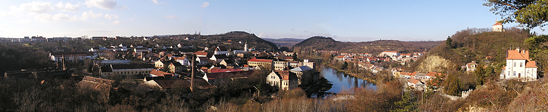 Dolní Kounice panorama